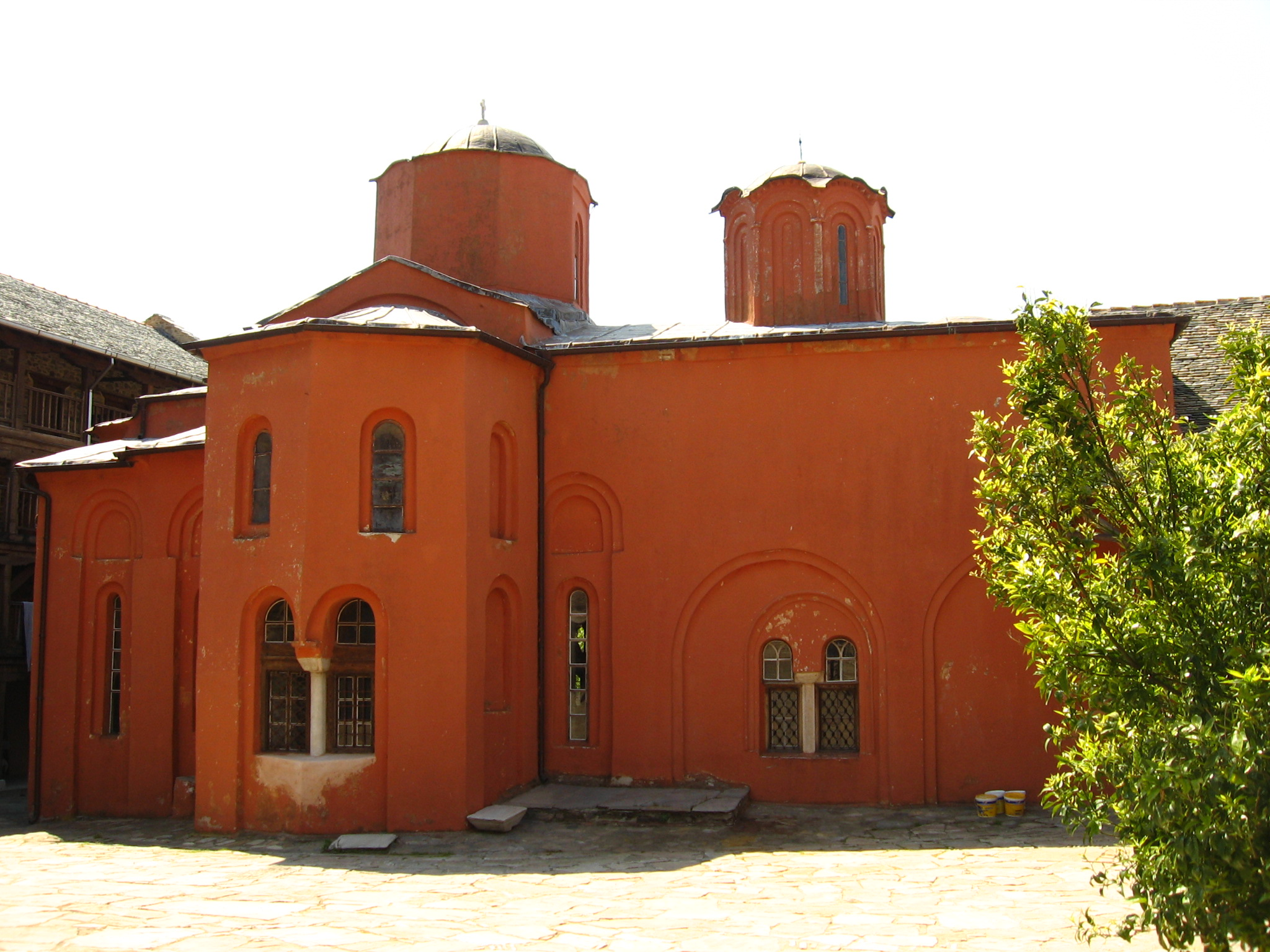 Old church of Xenophontos monastery on Mount Athos.